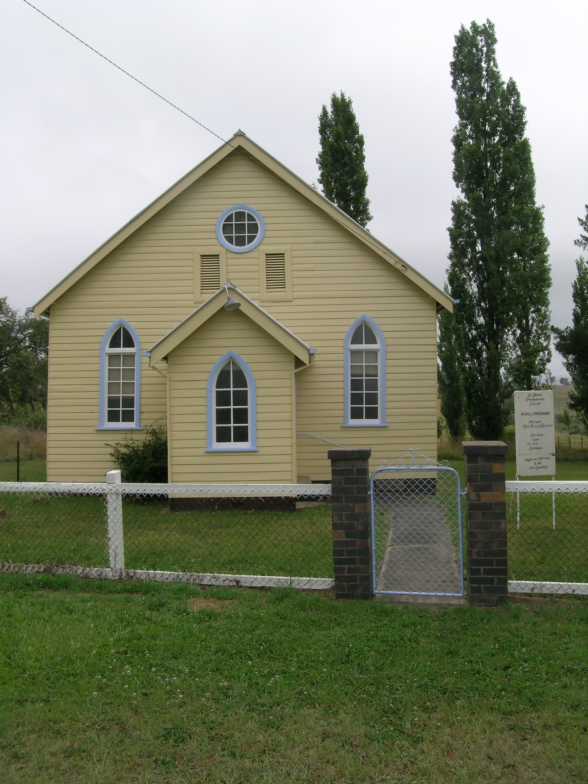 St John's Church, Wollomombi, New South Wales